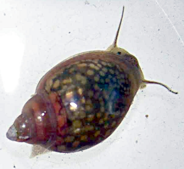 Photo of Physella acuta, in Mie prefecture, Japan.